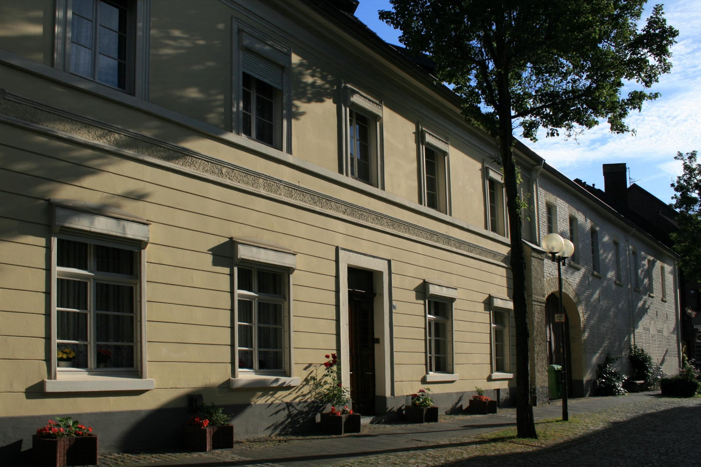 Cultural heritage monument No. B 129 in Mönchengladbach